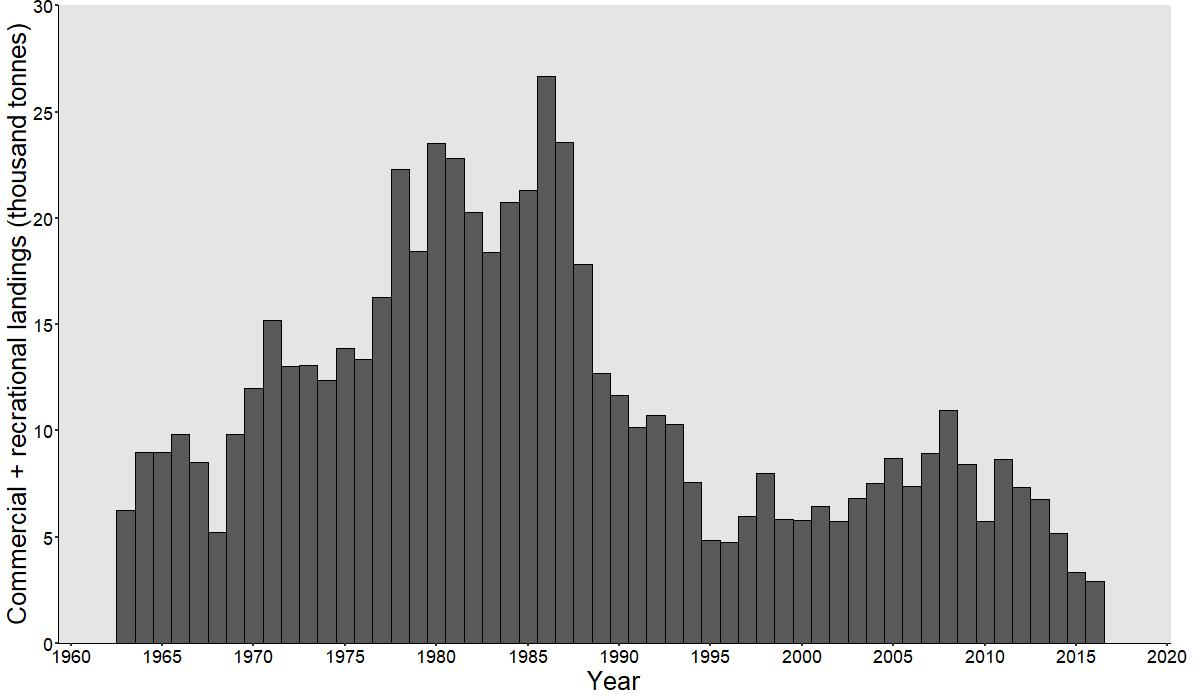 Landings of saithe (Pollachius virens) in the western Atlantic ocean. Data from NOAA.